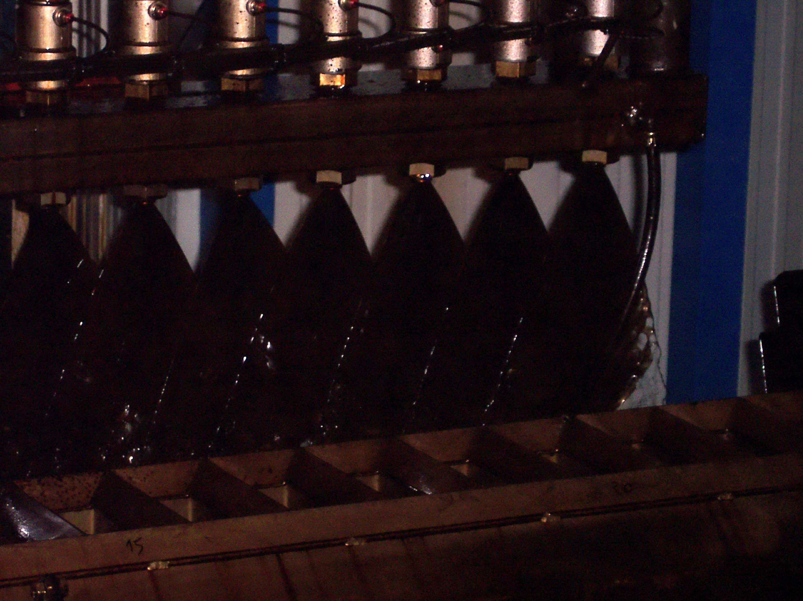 Calbribation of Nozzles for Surface Dressing